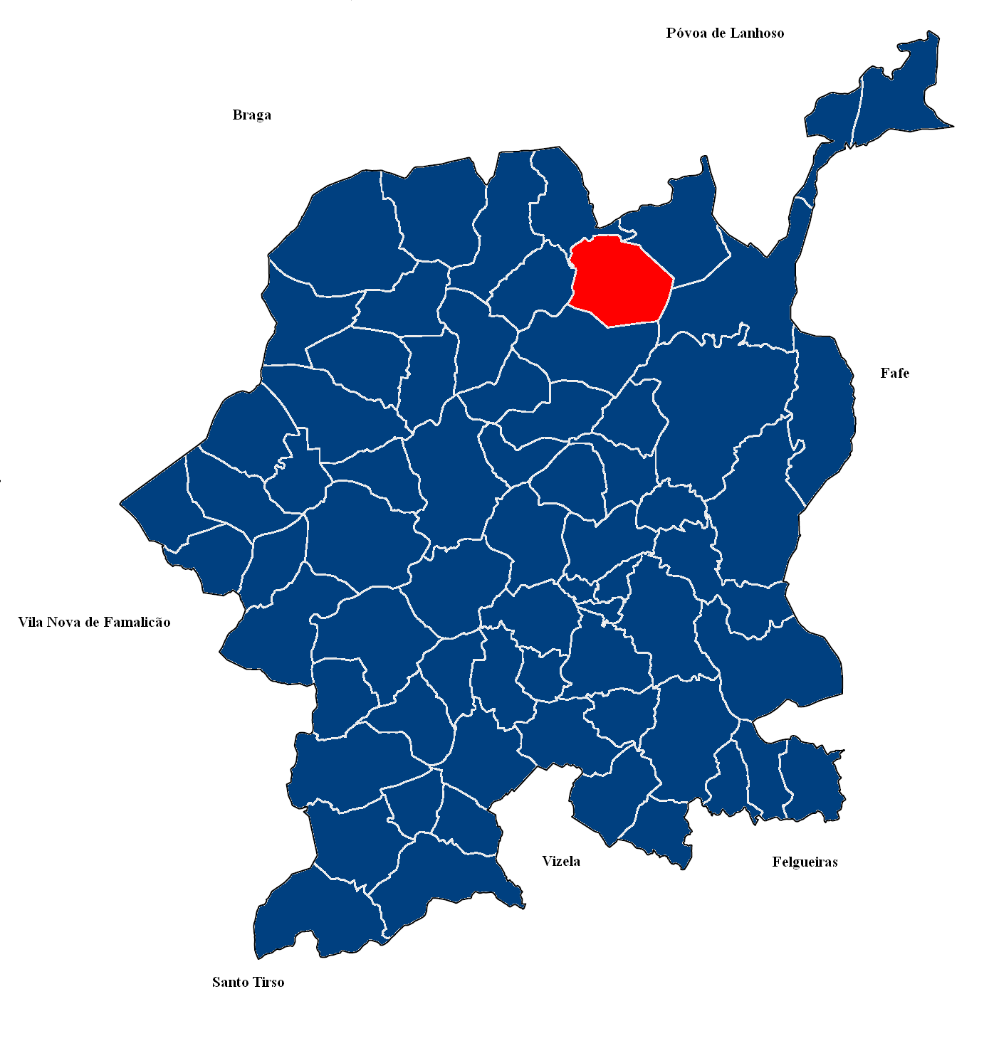 Map of Santa Maria de Souto parish, Guimarães Municipality, Portugal